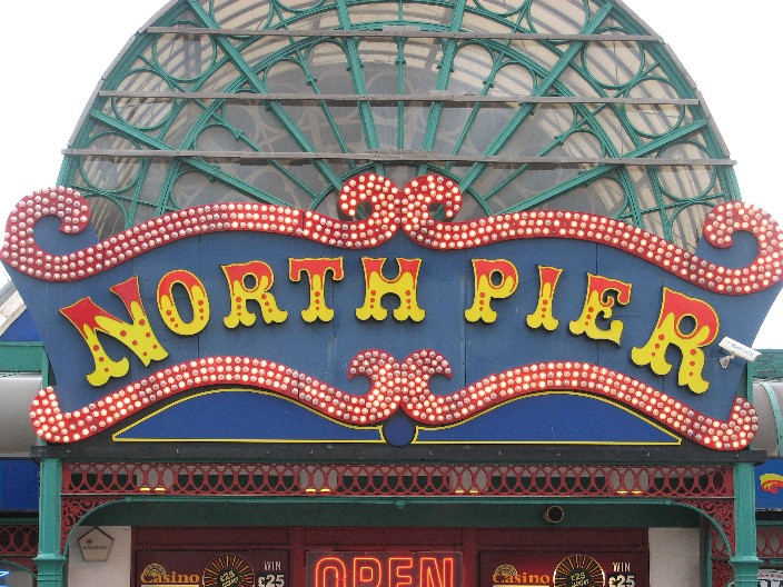 The sign at the entrance to Blackpool North Pier (September 2007)